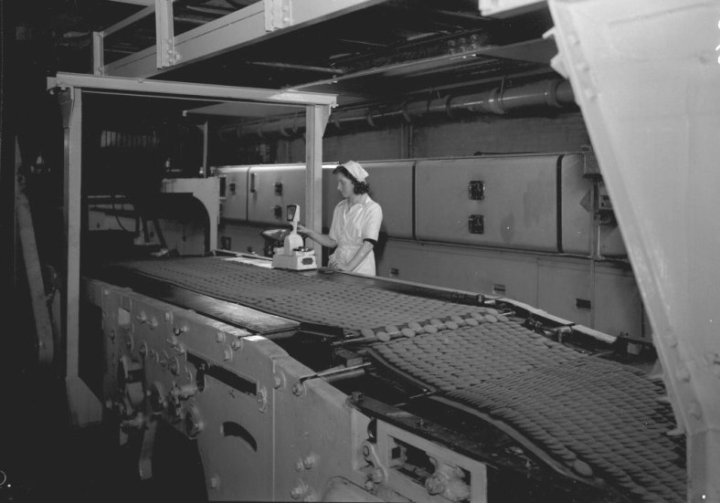 Here's a view of the machines in the production of Wright's Biscuits, photographed by Turners. Wright’s Biscuits was a well known company in South Shields, South Tyneside. Set up as a maker of biscuits, they started out by supplying their stock to ships in 1790, but after a fall in demand, Wright's turned to making more up-market biscuits. Wright's Biscuit factory closed in 1973. Turner’s was established in Newcastle upon Tyne in the early 1900s. It was originally a chemists shop but in 1938 become a photographic dealer. Turners went on to become a prominent photographic and video production company in the North East of England. They had 3 shops in Newcastle city centre, in Pink Lane, Blackett Street and Eldon Square. Turner’s photographic business closed in the 1990s. Ref: TWAS:DT.TUR/2/891/d (Copyright) We're happy for you to share this digital image within the spirit of The Commons. Please cite 'Tyne & Wear Archives & Museums' when reusing. Certain restrictions on high quality reproductions and commercial use of the original physical version apply though; if you're unsure please . To purchase a hi-res copy please quoting the title and reference number.